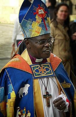 John Sentamu, Archbishop of York, outside York Minster.